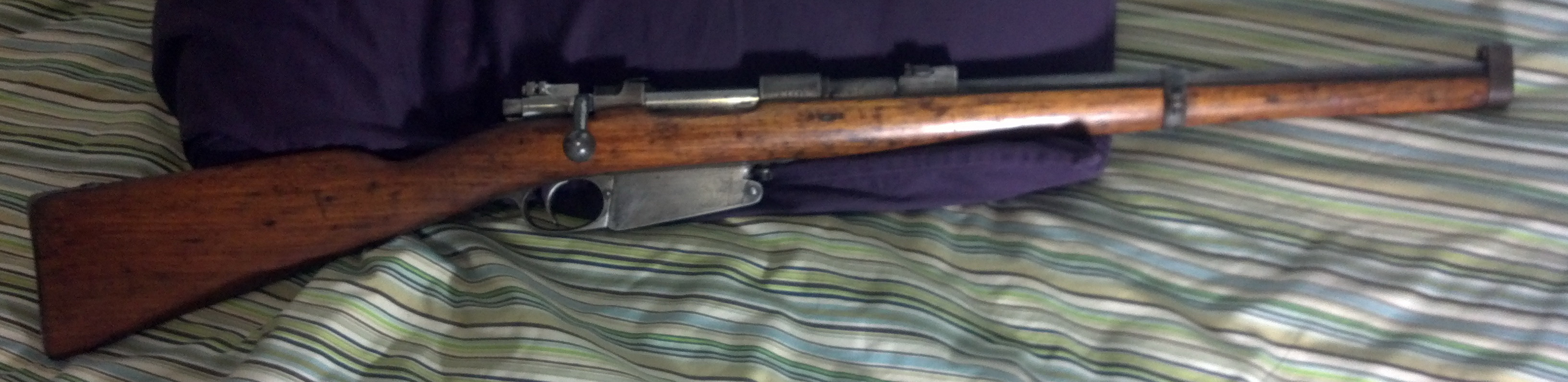 1891 Cavalry Carbine